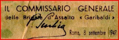 firma medaglia garibaldina